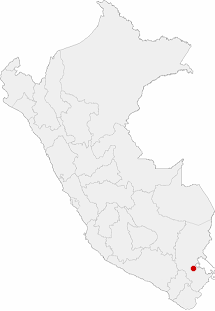 Location of the city of Puno in Peru Created by Tuomas Carrasco - Mar. 2005